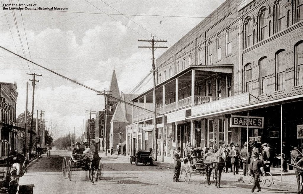 Downtown Valdosta in early 1900s.